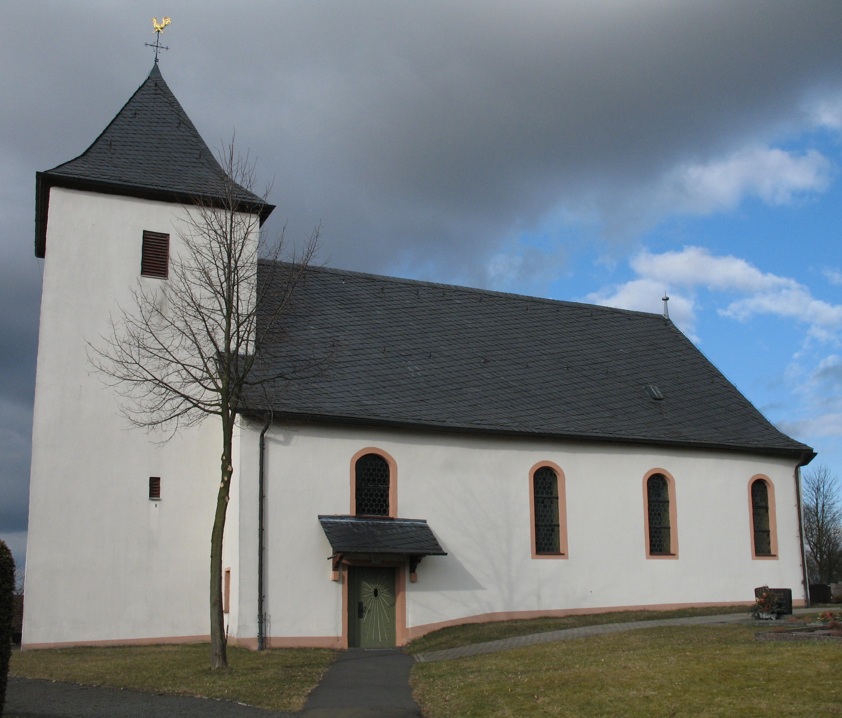 Church in Grünberg-Stangenrod in Hesse, Germany